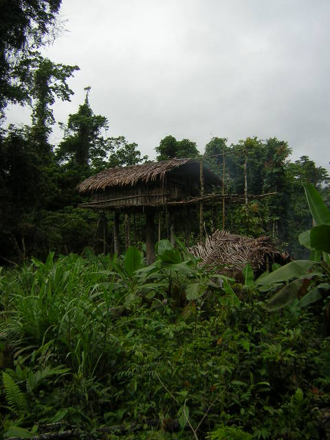 Treehouse of the Korowai tribe in Papua New Guinea.